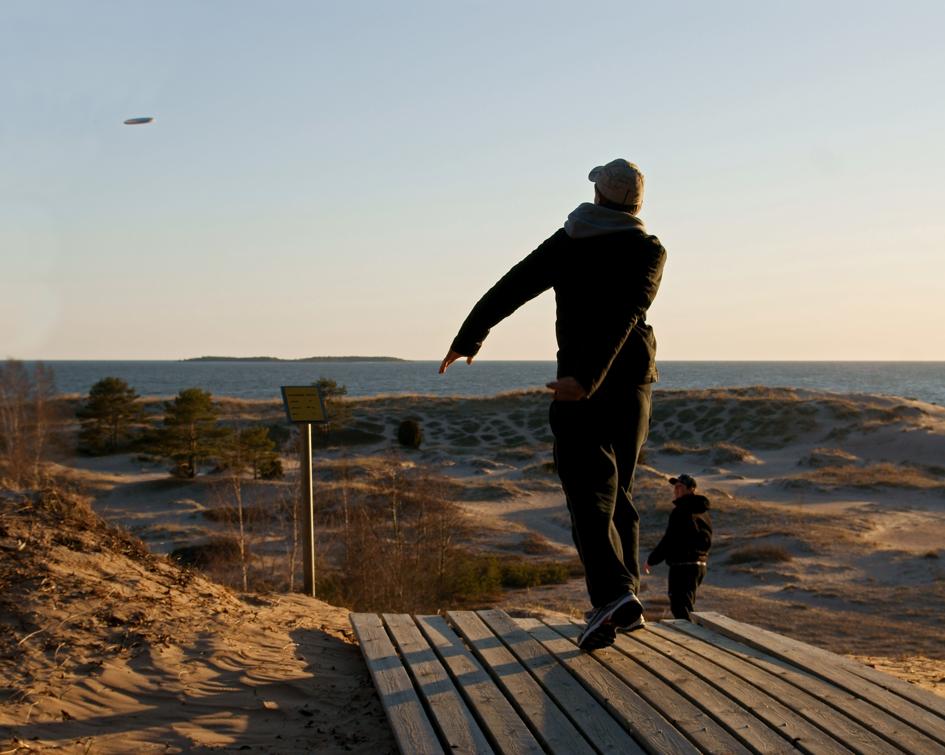 Disc golf at Yyteri beach in Finland at sunset, seen in the background are Yyteri dunes and the sea.